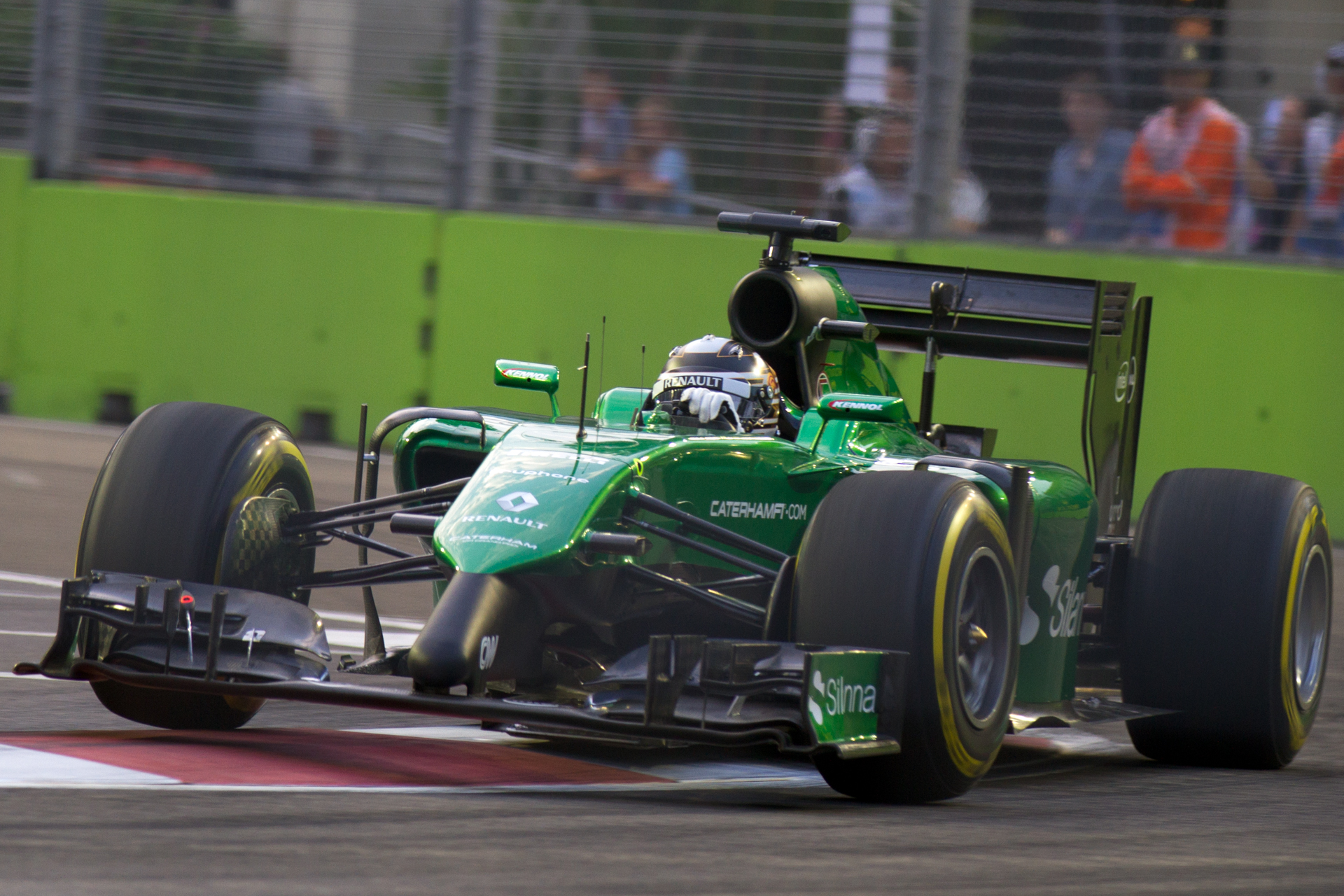 Formula One 2014 Rd.14 Singapore GP: Kamui Kobayashi (Caterham)